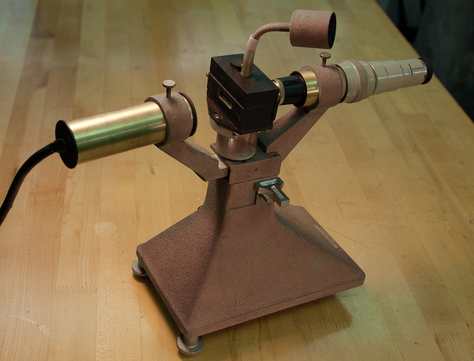 Millikan's oil drop experiment apparatus consisting of a light source, chamber with electrical plates and a microscope.